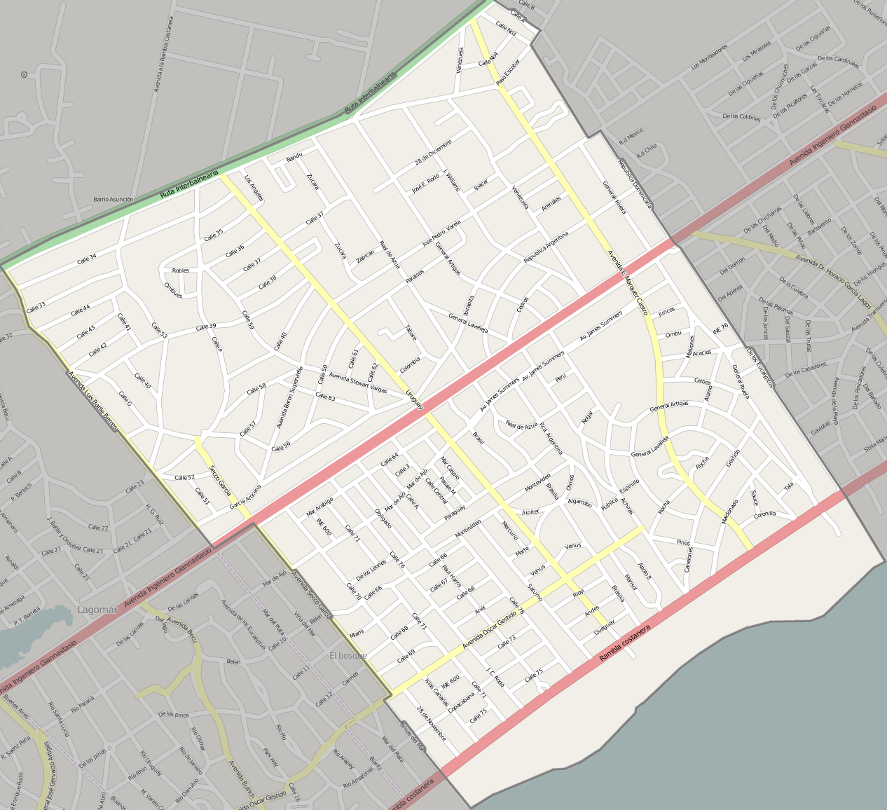 Street map of Solymar, resort of the Ciudad de la Costa, Canelones Department, Uruguay, exported from OpenStreetMap. I added shading to delimit the resort. This map may be incomplete, and may contain errors. Don't rely solely on it for navigation.